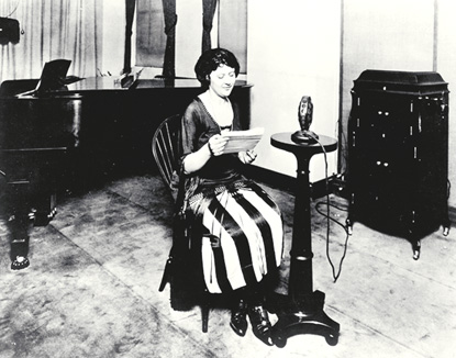 This is a photograph of Helen Hahn, the announcer for The Eveready Hour, in the WEAF studio in 1922.